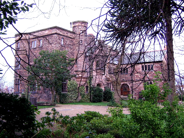 Photograph